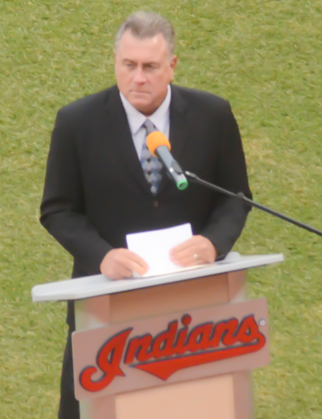 Cleveland Indians radio announcer Tom Hamilton making pregame introductions at the team's 2014 home opener